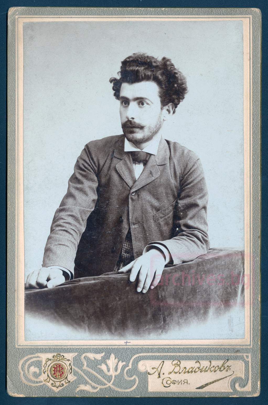 Mihail Daaev